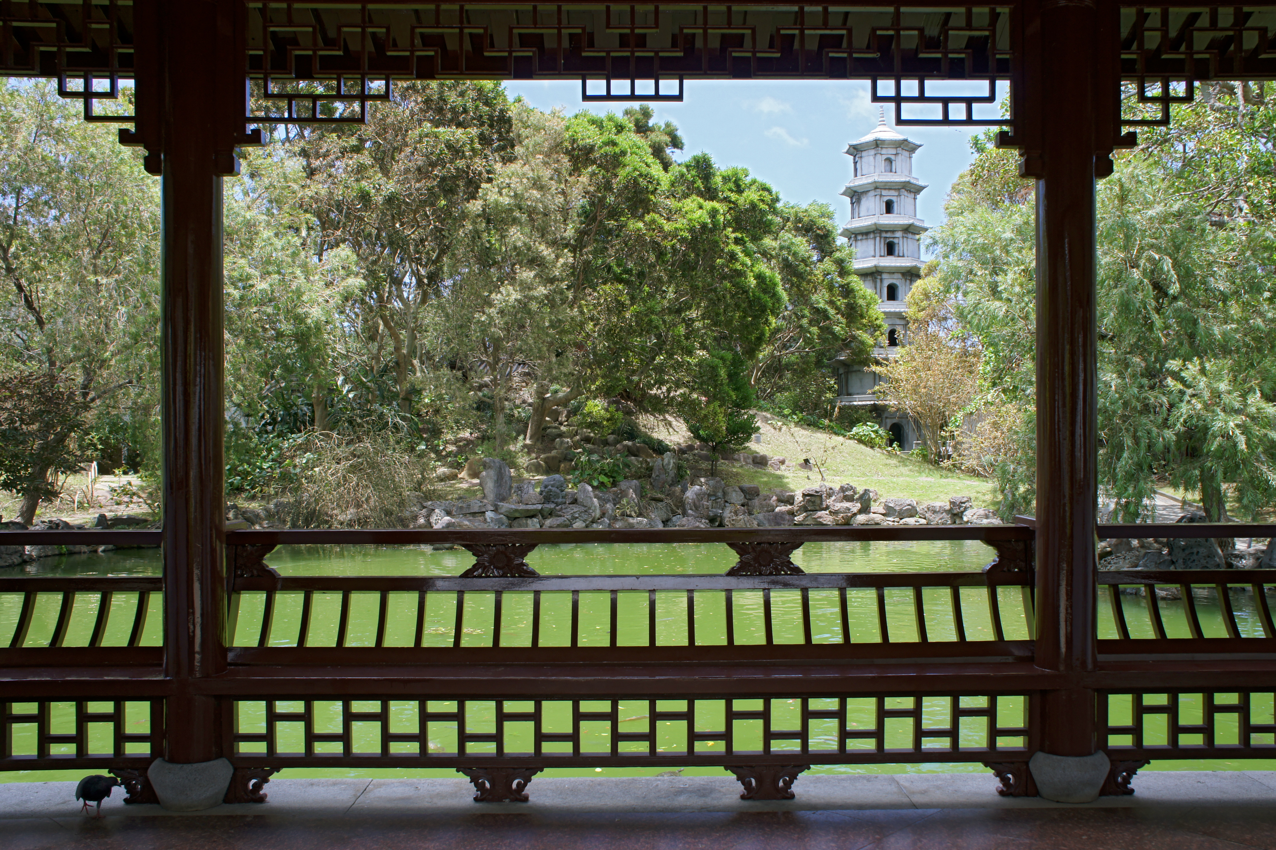 Fukushu-en in Naha, Okinawa prefecture, Japan.